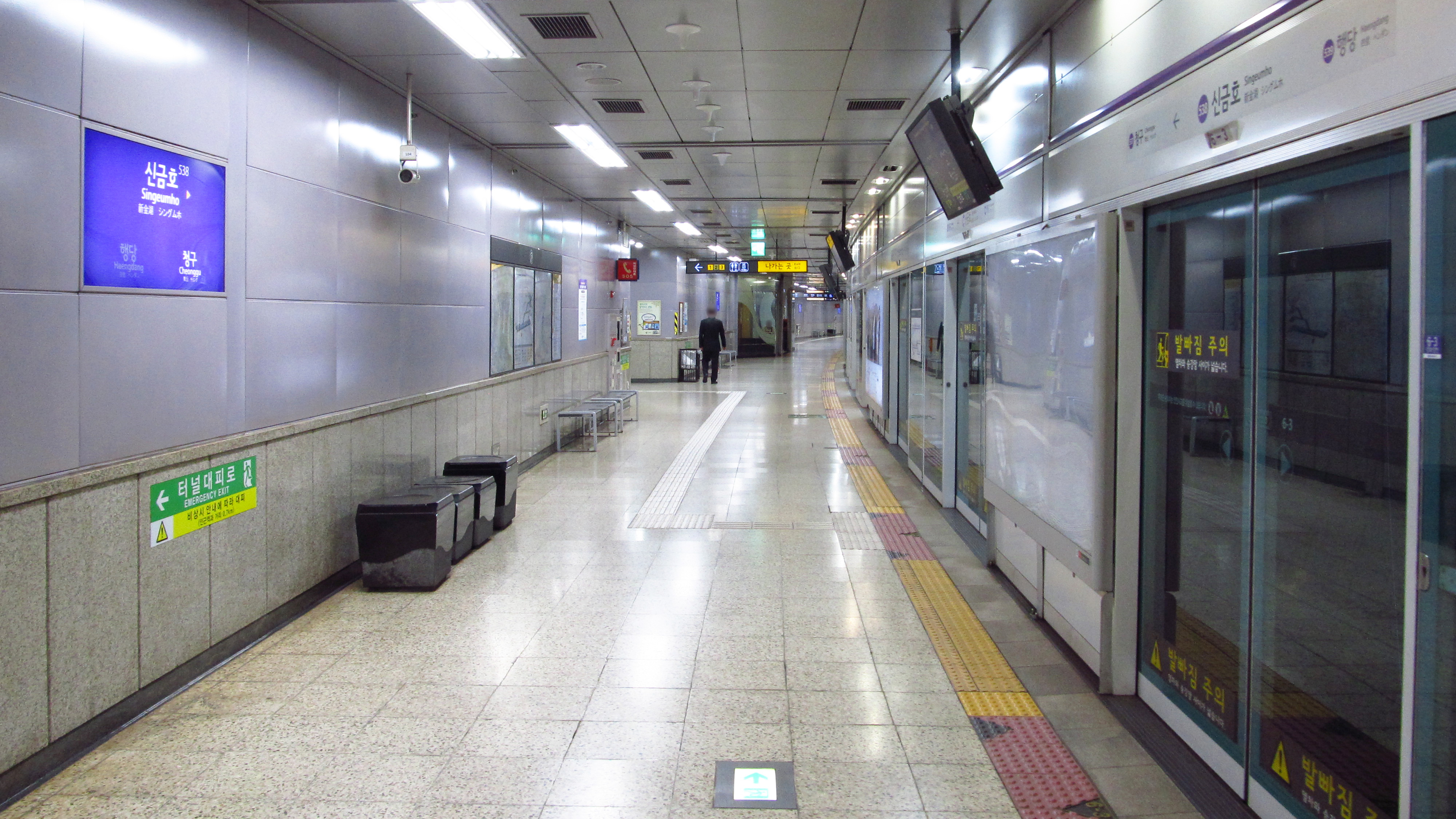 The platform at Singeumho Station on Seoul Subway Line 5 in Seongdong-gu, Seoul, Republic of Korea(South Korea)